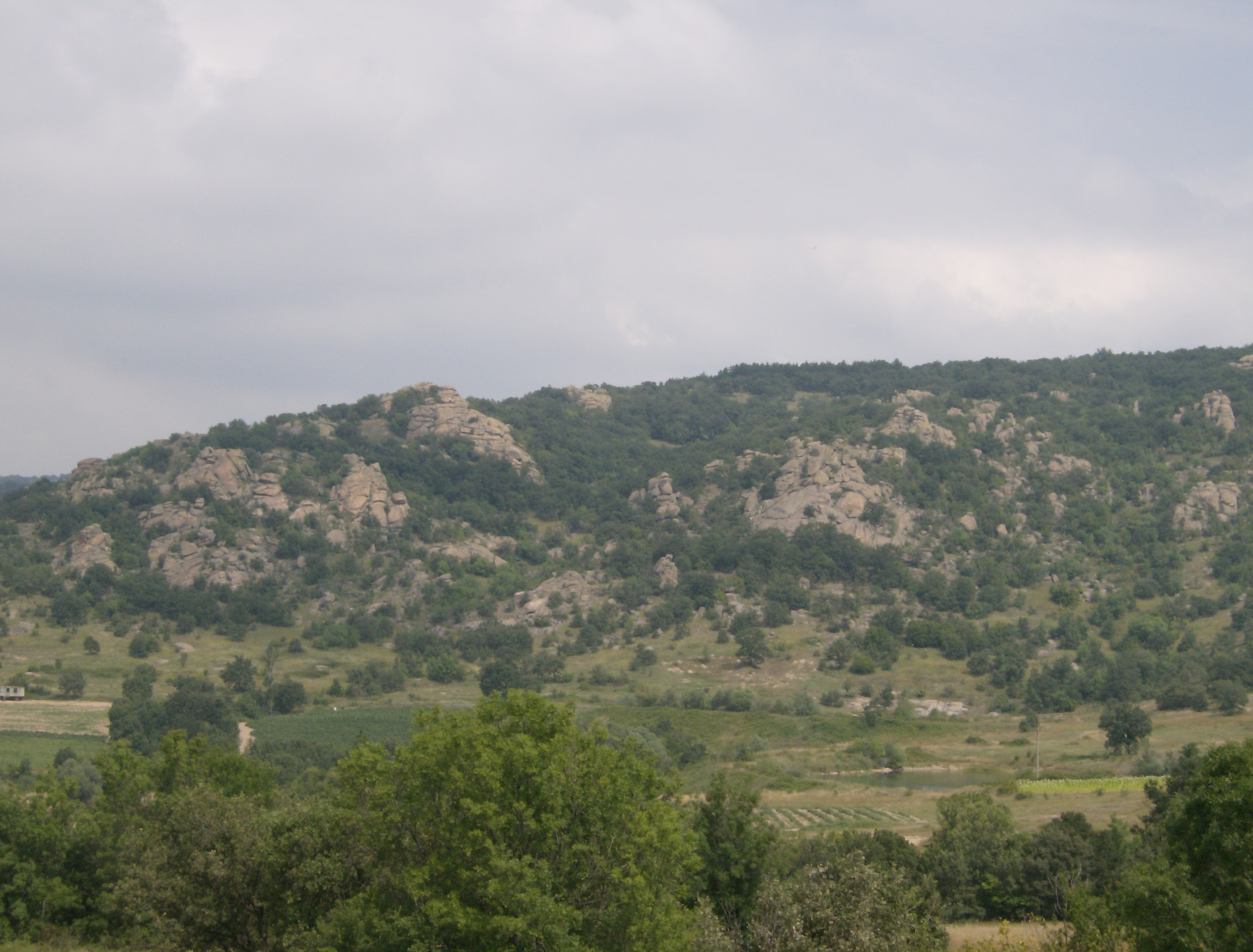 Cherepovo